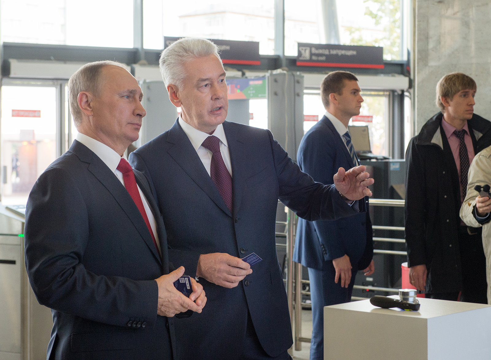 Vladimir Putin and Sergey Sobyanin in opening of Moscow Central Ring